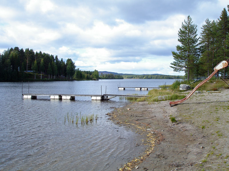 Rusele beach by lake Blåviken, Lycksele municipality, Swedish Lapland.